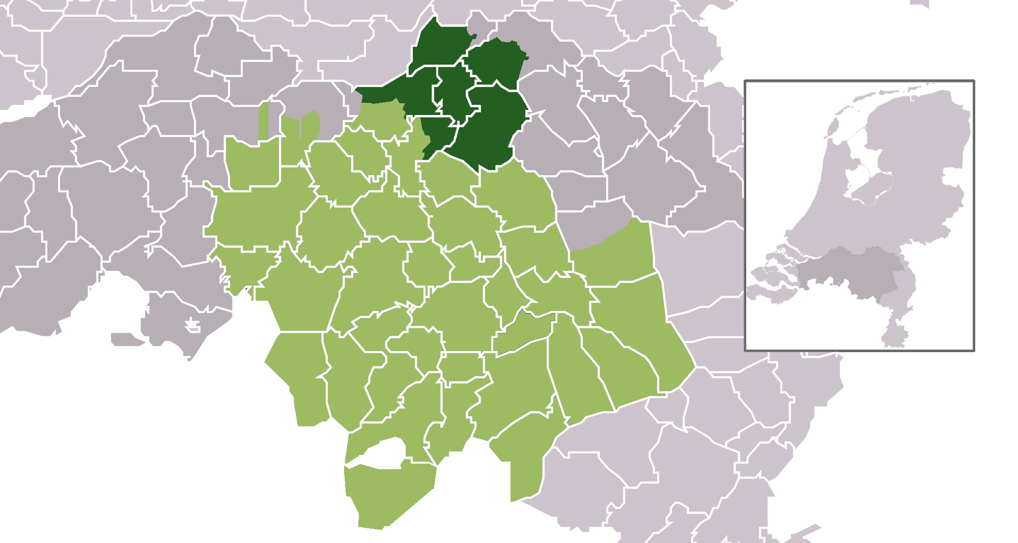 Quarter of Maasland in the historical Meierij van Den Bosch' Location maps for the 441 municipalities in the Netherlands. Boundaries 1/1/2009 Automatically generated with script File name contains "Municipality codes" (CBS-code) as specified in: [1] Created in svg using coordinate data derived from ESRI data published by Centraal Bureau voor de Statistiek, Voorburg/Heerlen. ([2]) Color coding and original design by user Mtcv (2006/2007) ([3])